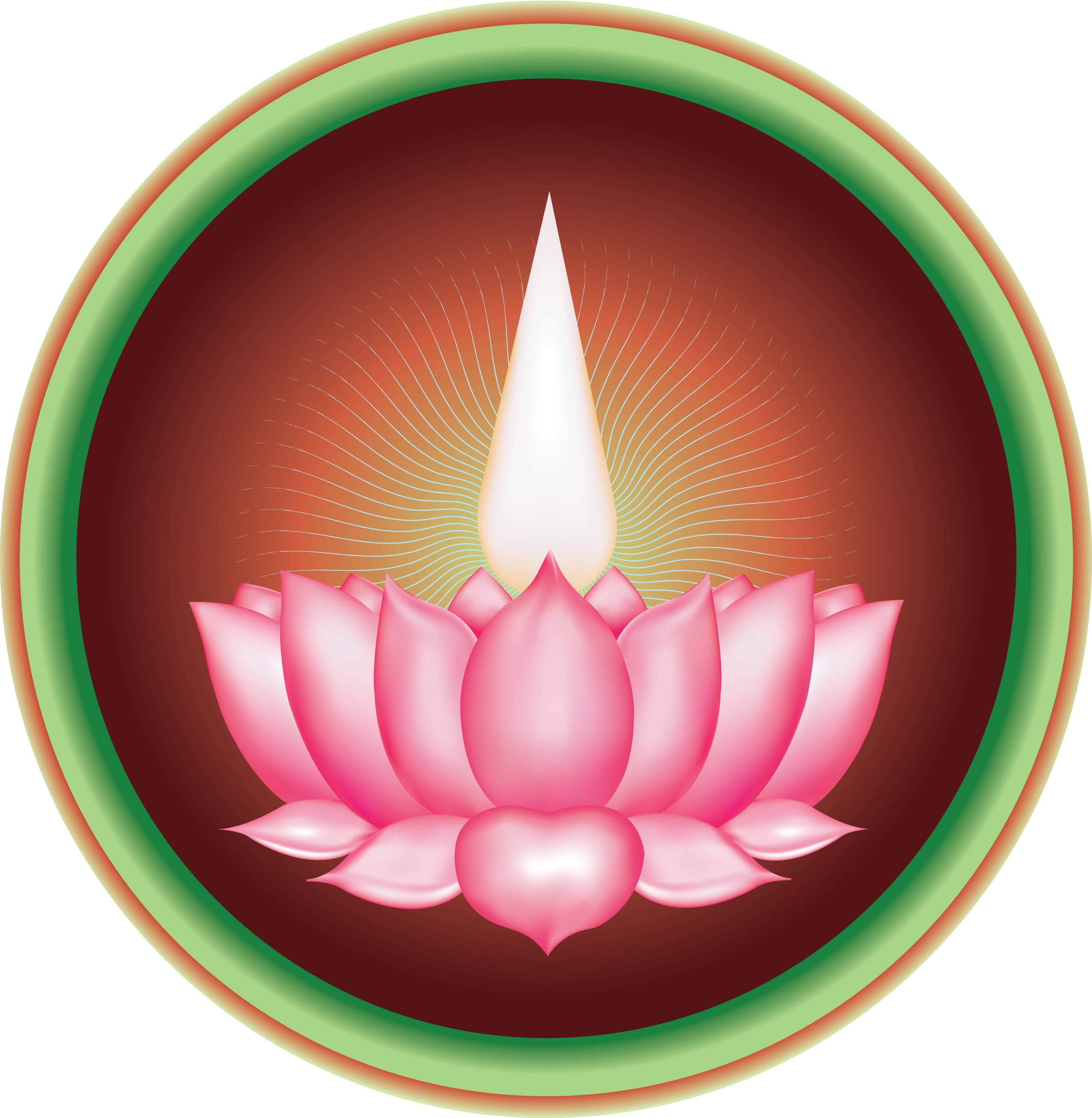 This is the religious symbol of Ayyavazhi, an Indian Dharmic belief system.